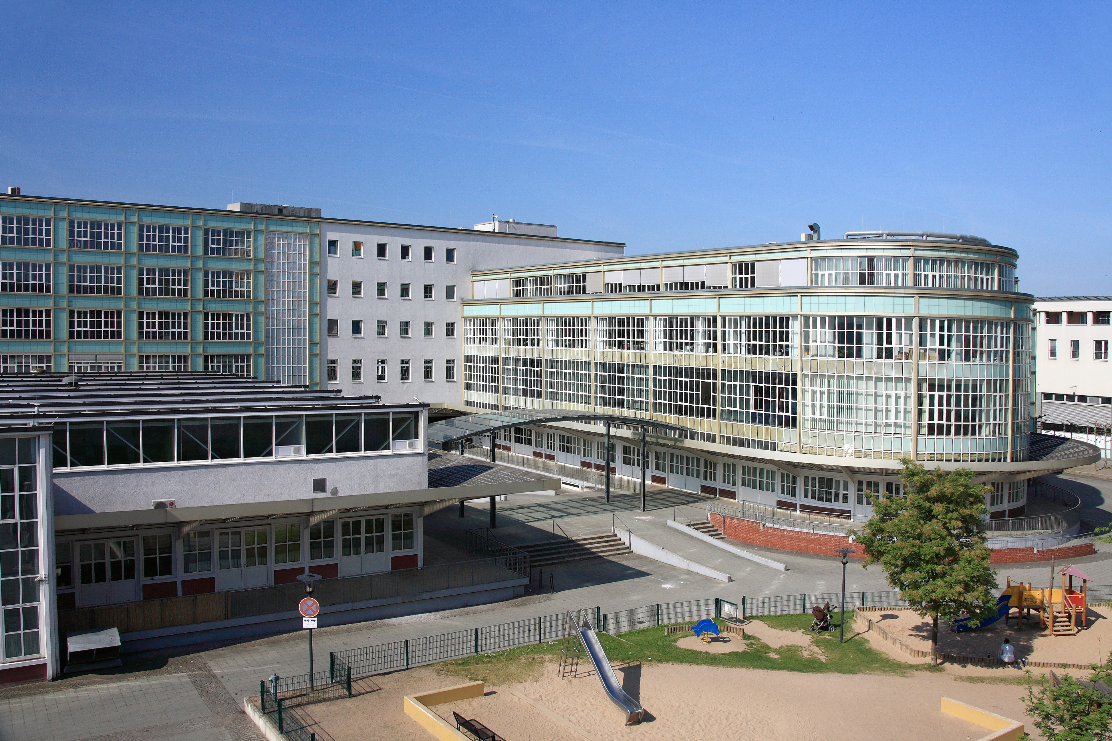 The former 4711-Eau de Cologne-factory at Köln Ehrenfeld. Today there are apartments as well as a playschool or bureaus.